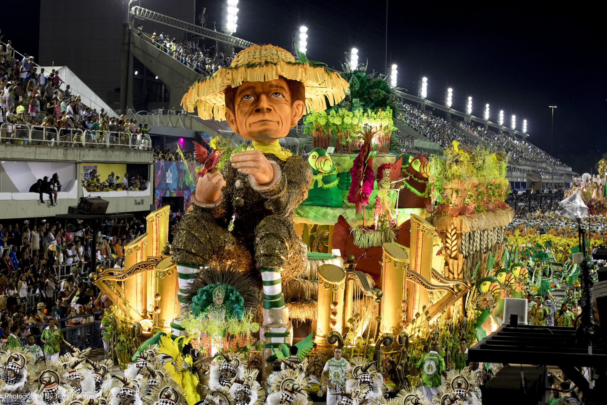 Rio Carnival 2017 By Terry George